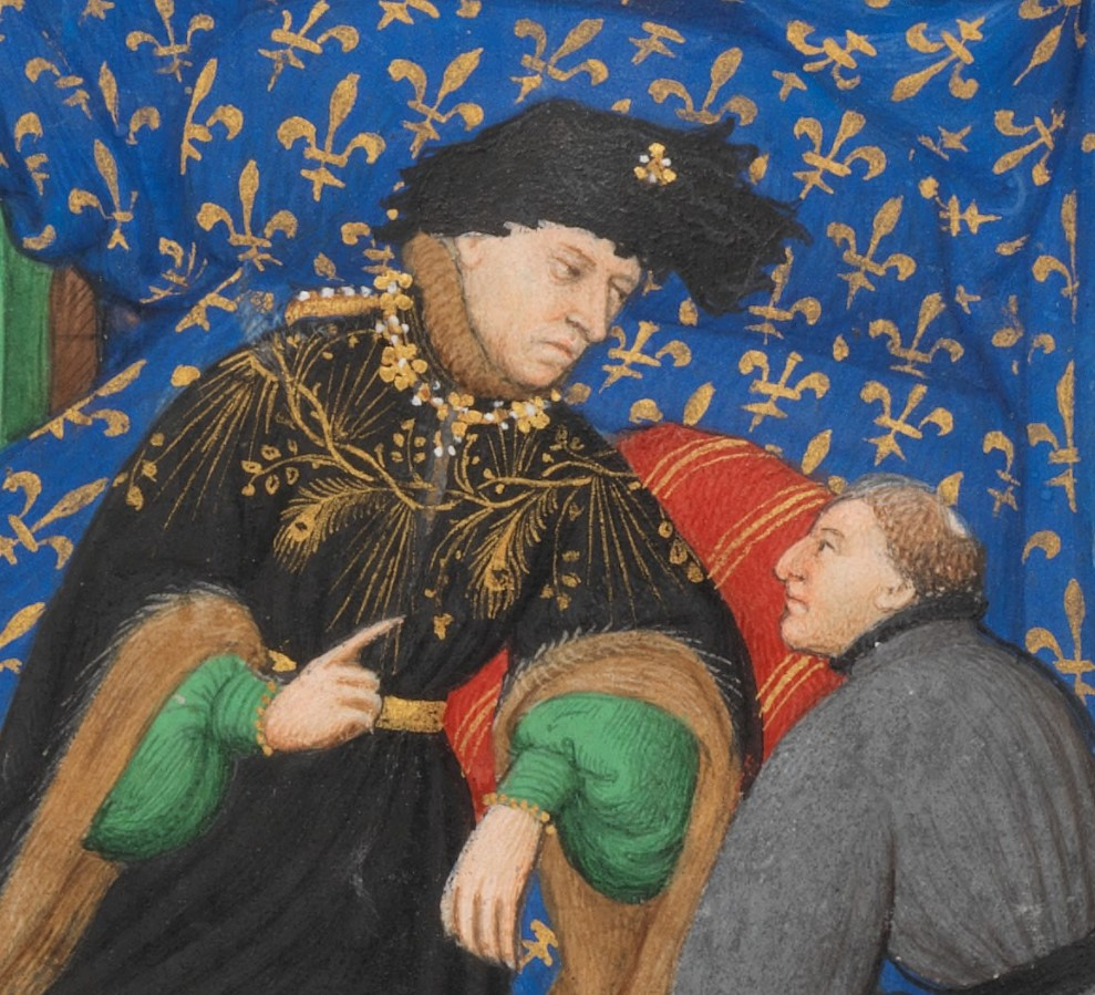 Charles the Mad (Charles VI of France), detail of a miniature from a contemporary manuscript; in the Bibliothèque Publique et Universitaire, Geneva